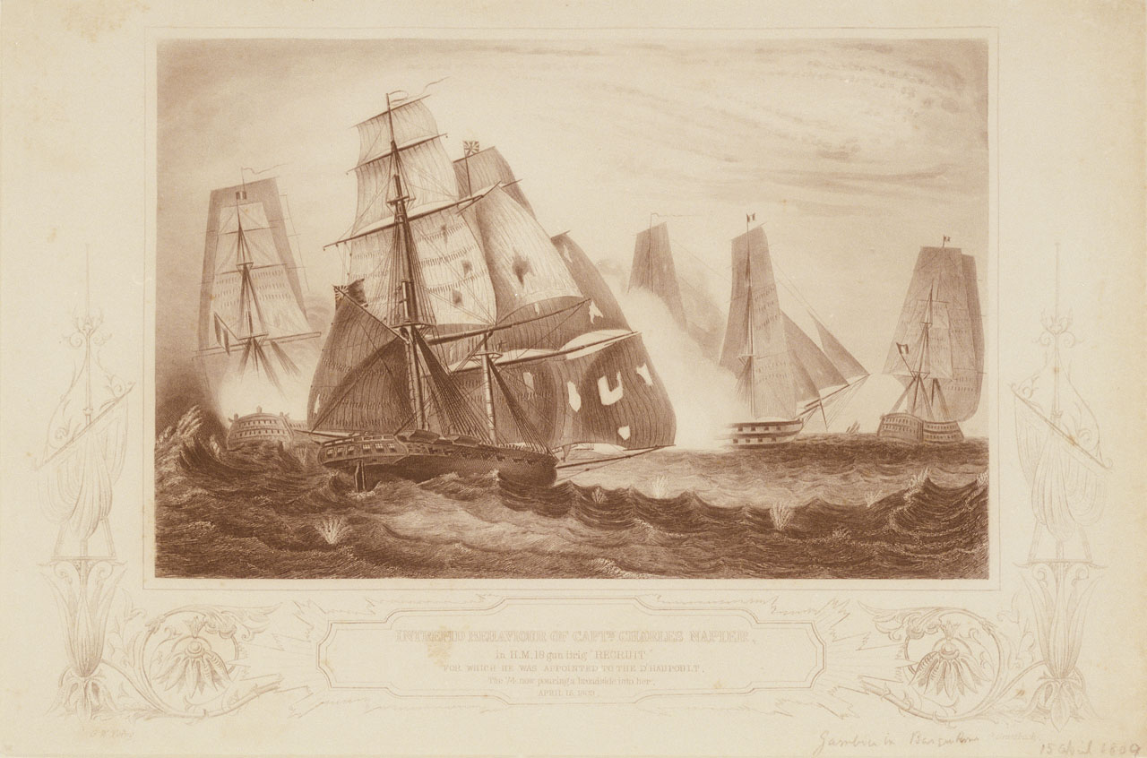 Intrepid behaviour of Captn Charles Napier, in H M 18 gun Brig Recruit for which he was appointed to the D' Haupoult. The 74 now pouring a broadside into her. April 15 1809